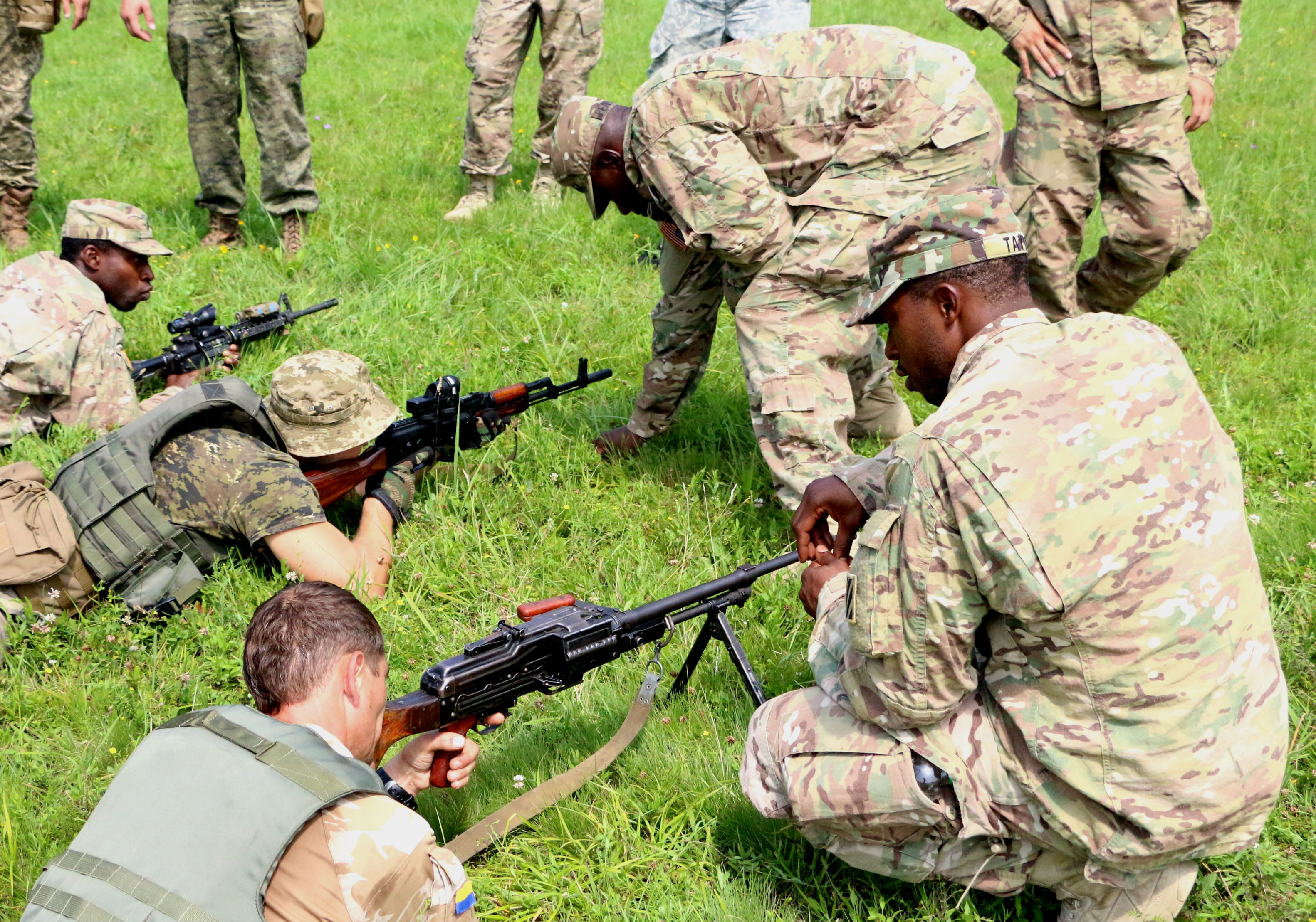 YAVORIV, Ukraine - Soldiers of 6th Squadron, 8th Cavalry Regiment, 2nd Infantry Brigade Combat Team, 3rd Infantry Division train Ukrainian Soldiers on trigger squeeze, July 27, 2016. Trigger squeeze is one of the fundamentals of rifle marksmanship. Soldiers of 6-8 Cav are here in support of the Joint Multinational Training Group-Ukraine. JMTG-U is responsible for training Ukrainian land forces and building a team of Ukrainian cadre who will ultimately assume that responsibility. The training is designed to reinforce defensive skills of the Ukrainian Ground Forces in order to increase their capacity for self-defense. (U.S.Army photo by Spc. John Onuoha / Released)